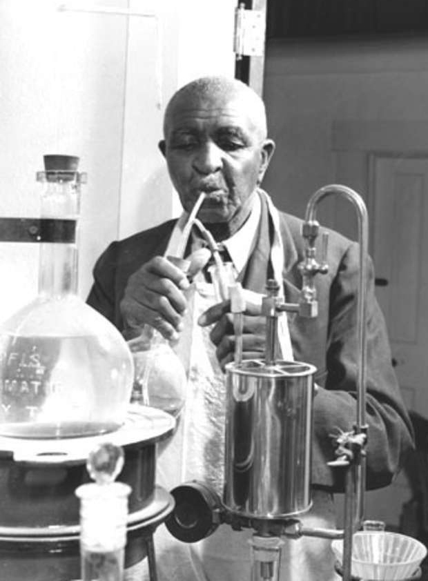 George Washington Carver, American botanist and inventor, at work in his laboratory